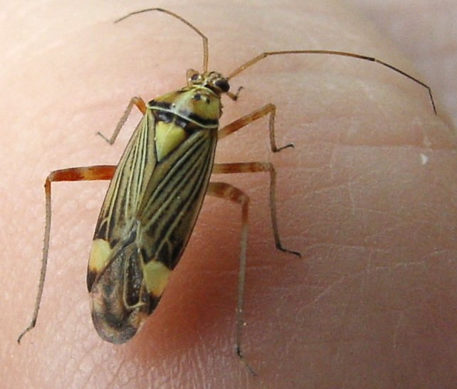 Rhabdomiris striatellus previously known as Calocoris striatellus (Miridae) in "ZOOM", Gelsenkirchen